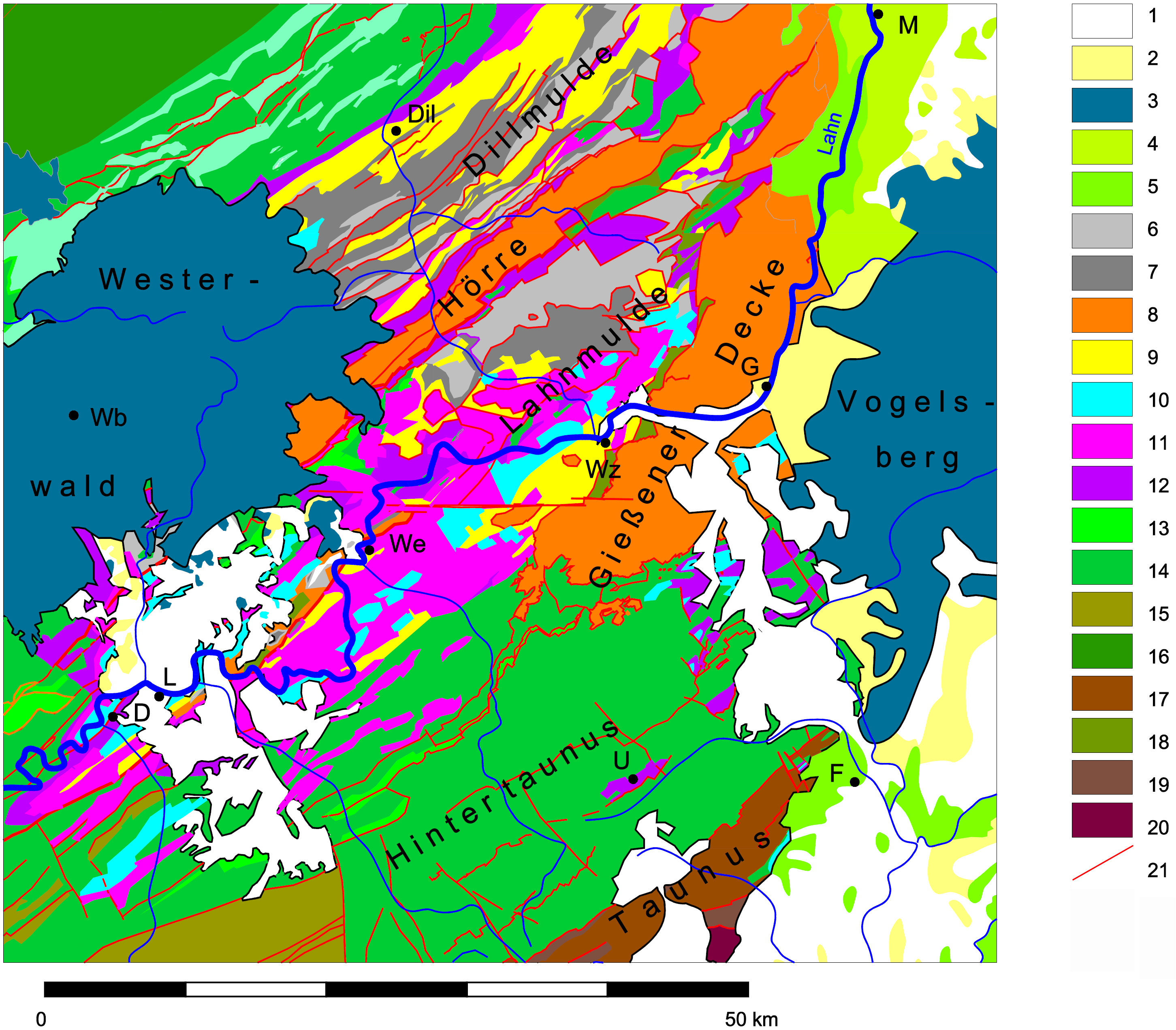 Geological map of Lahn Syncline, Germany